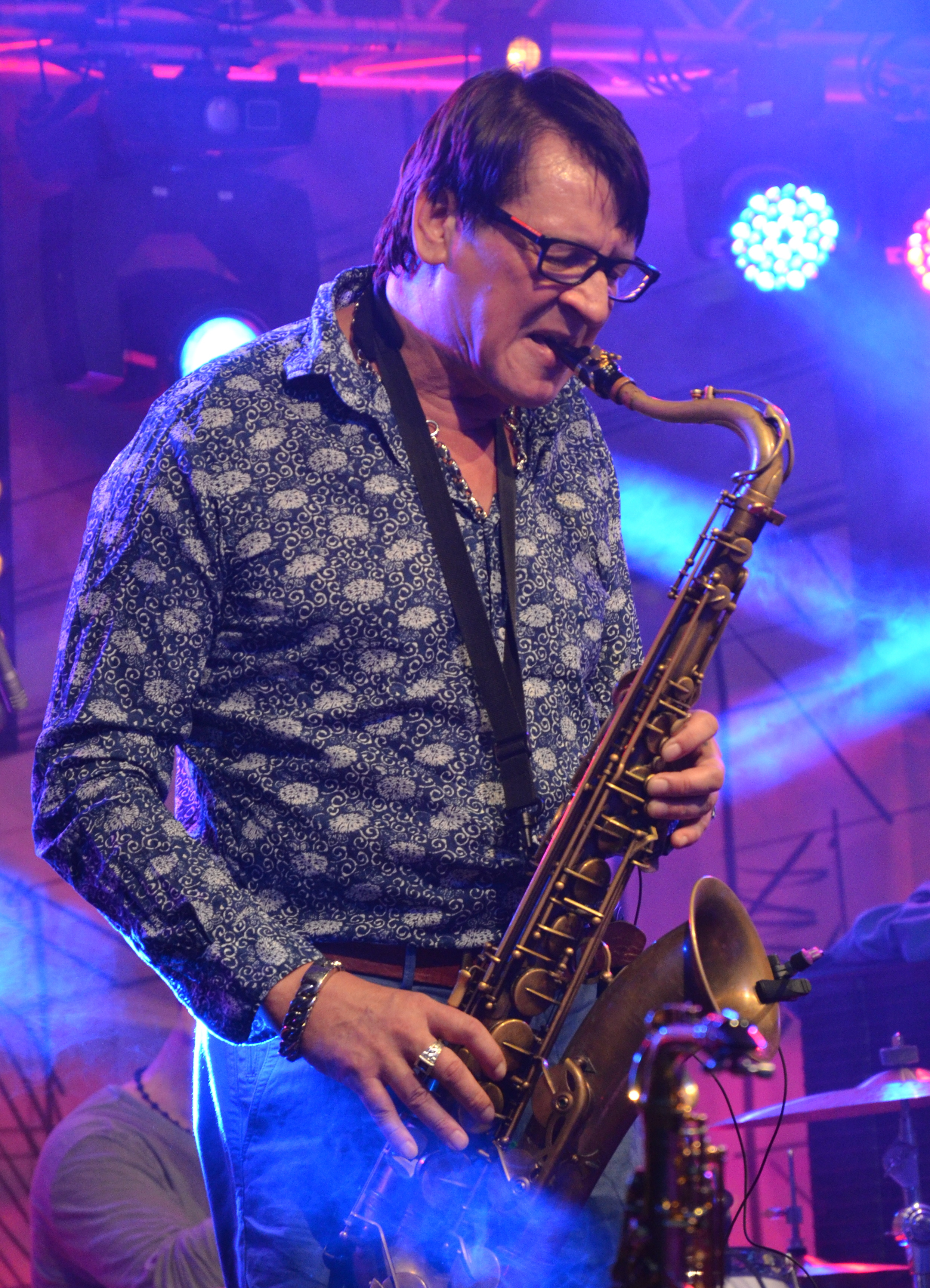 Der polnische Sänger, Musiker und Komponist Maciej Maleńczuk, Jazz for Idiots in Bielsko-Biala.